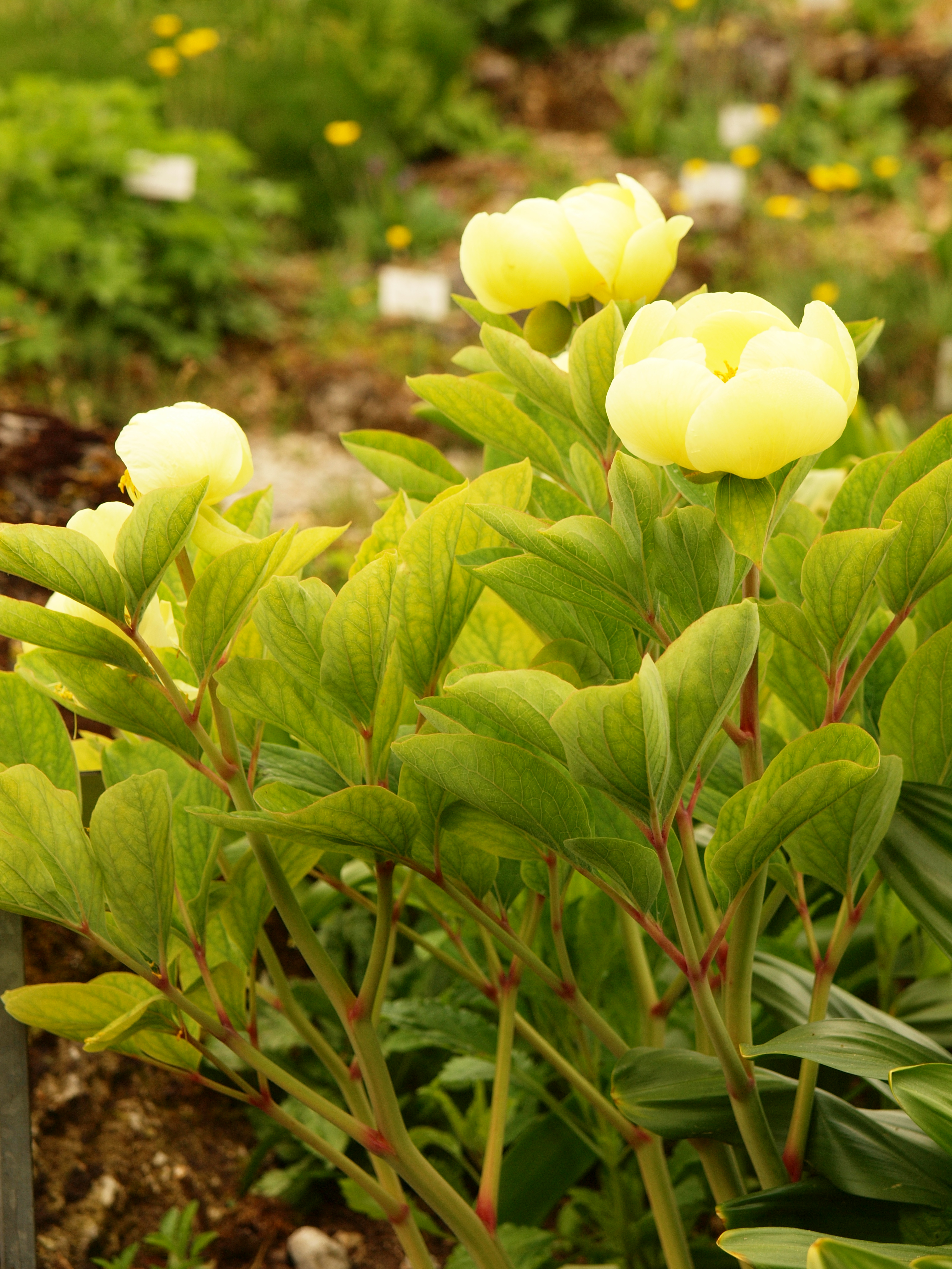 Paeonia daurica ssp. mlokosewitschii